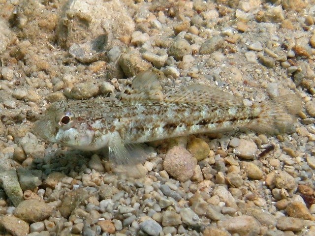 Female Gobius roulei photographed near Croatian coasts by Roberto Pillon.